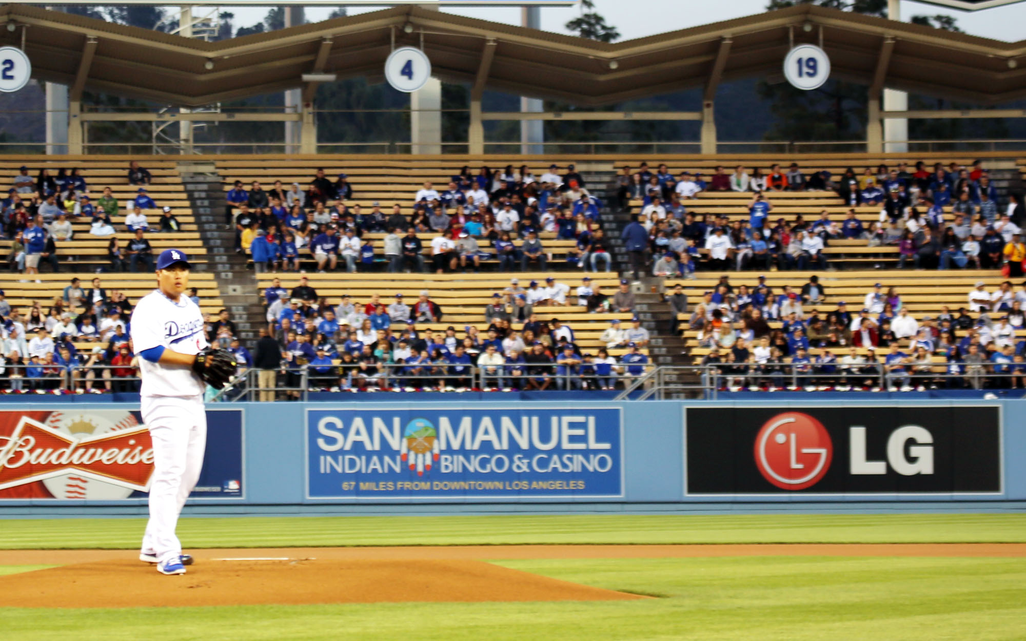 Hyun-Jin Ryu of the Dodgers pitching at Dodger Stadium, 2013